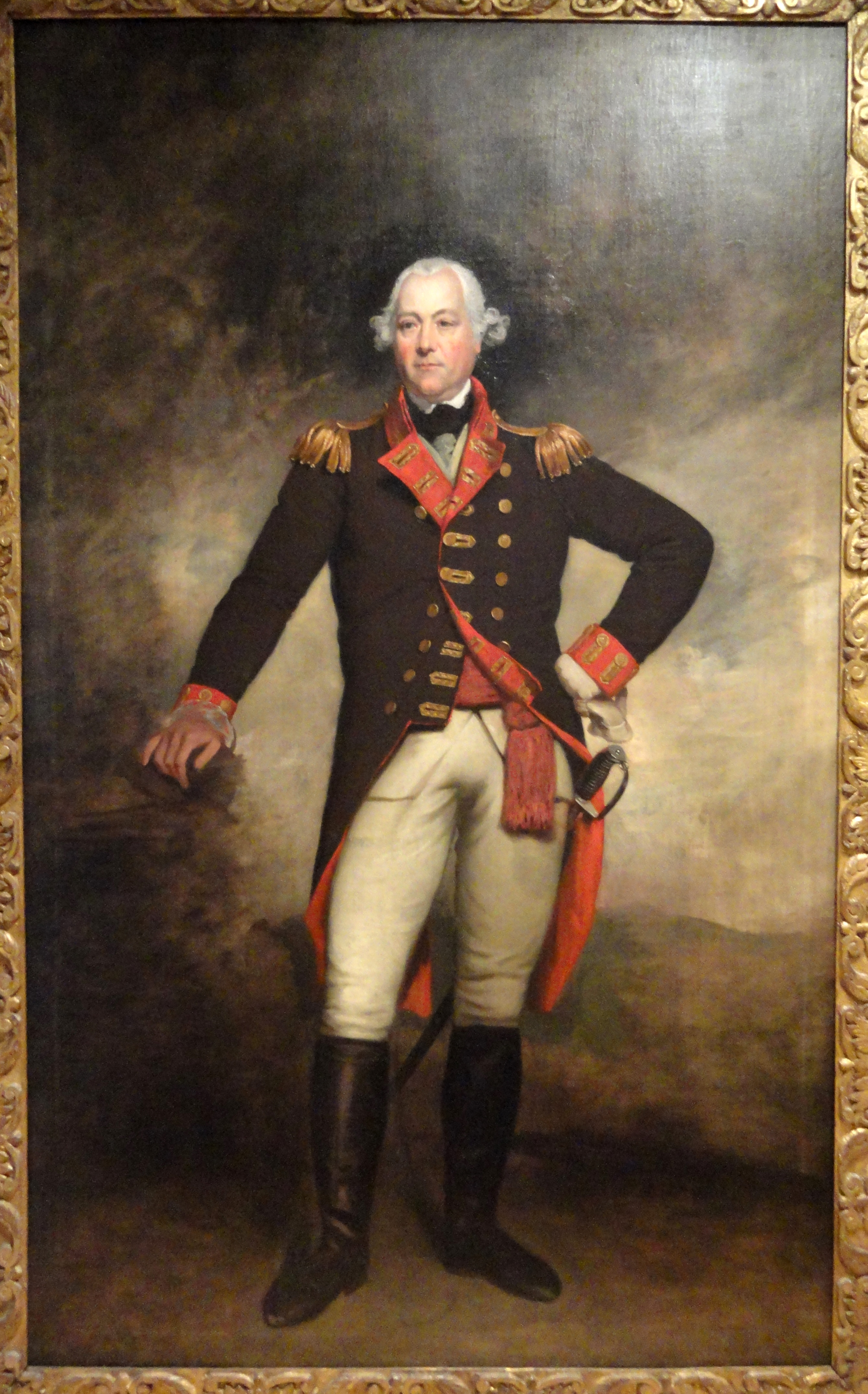 Exhibit in the Royal Ontario Museum, Toronto, Ontario, Canada. This exhibit is old enough so that it is in the public domain. Photography was permitted in the museum. I took this photograph and release it into the public domain.